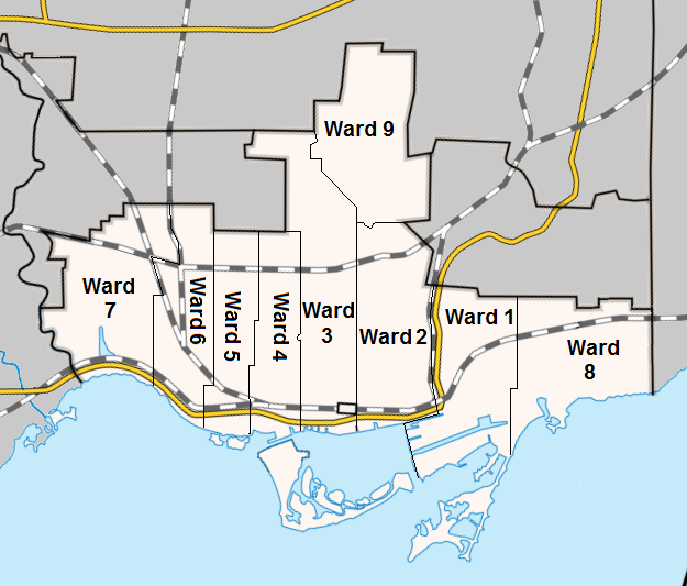 map of Toronto wards used in 1966 election